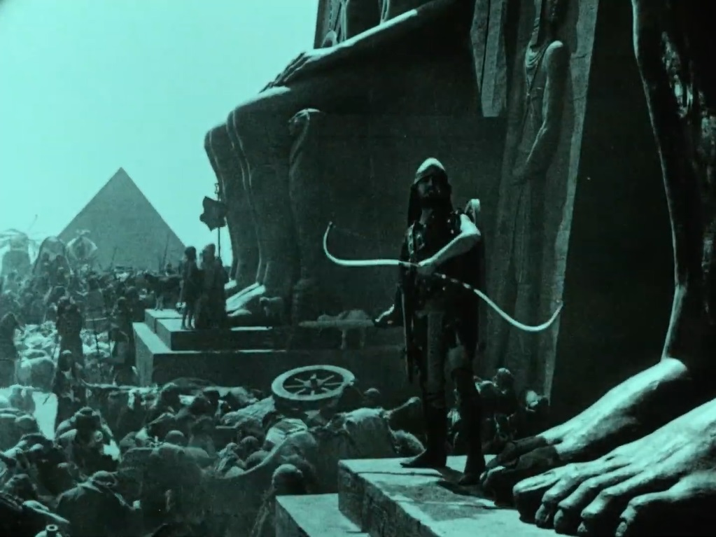 Screenshot from the silent film The Ten Commandments (1923).